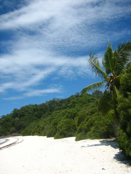 White sand and tropical vegetation at Whitehaven Beach.